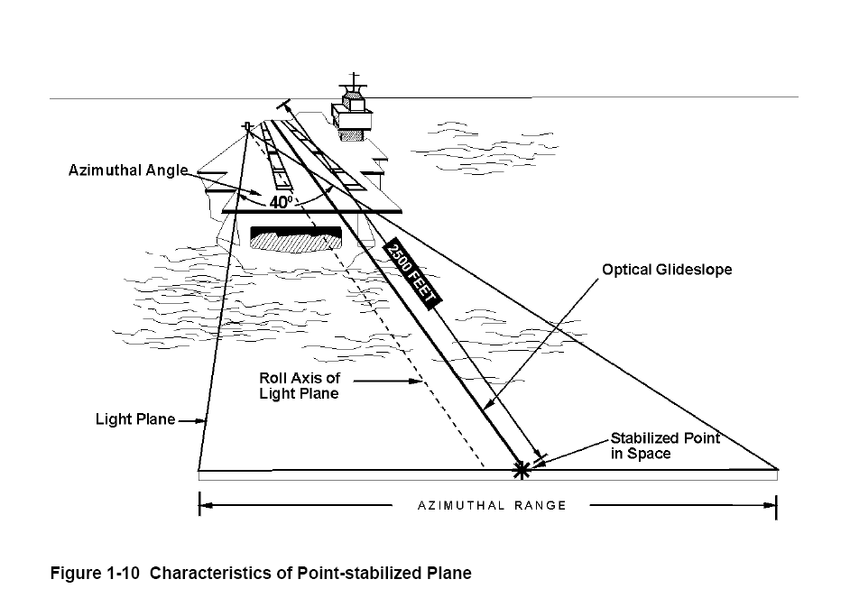 Point stabilization of the IFLOS.